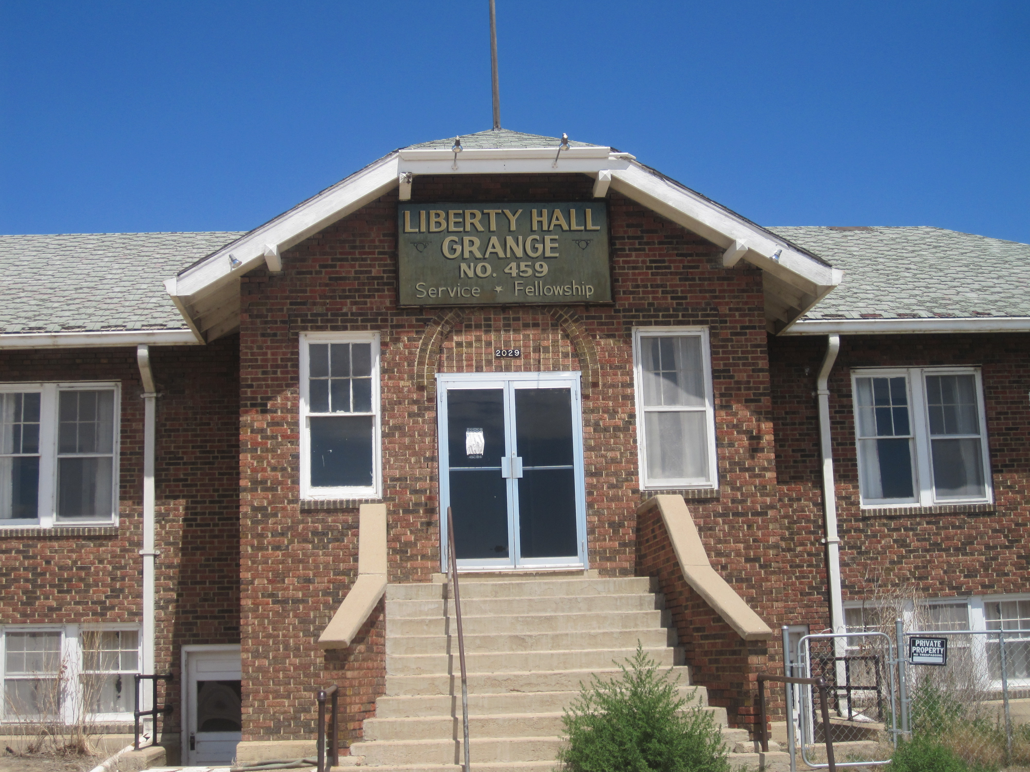 I took photo with Canon camera near Longmont, CO.